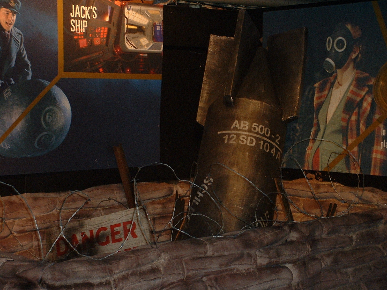 Dr Who Brighton Doctor Who Experience